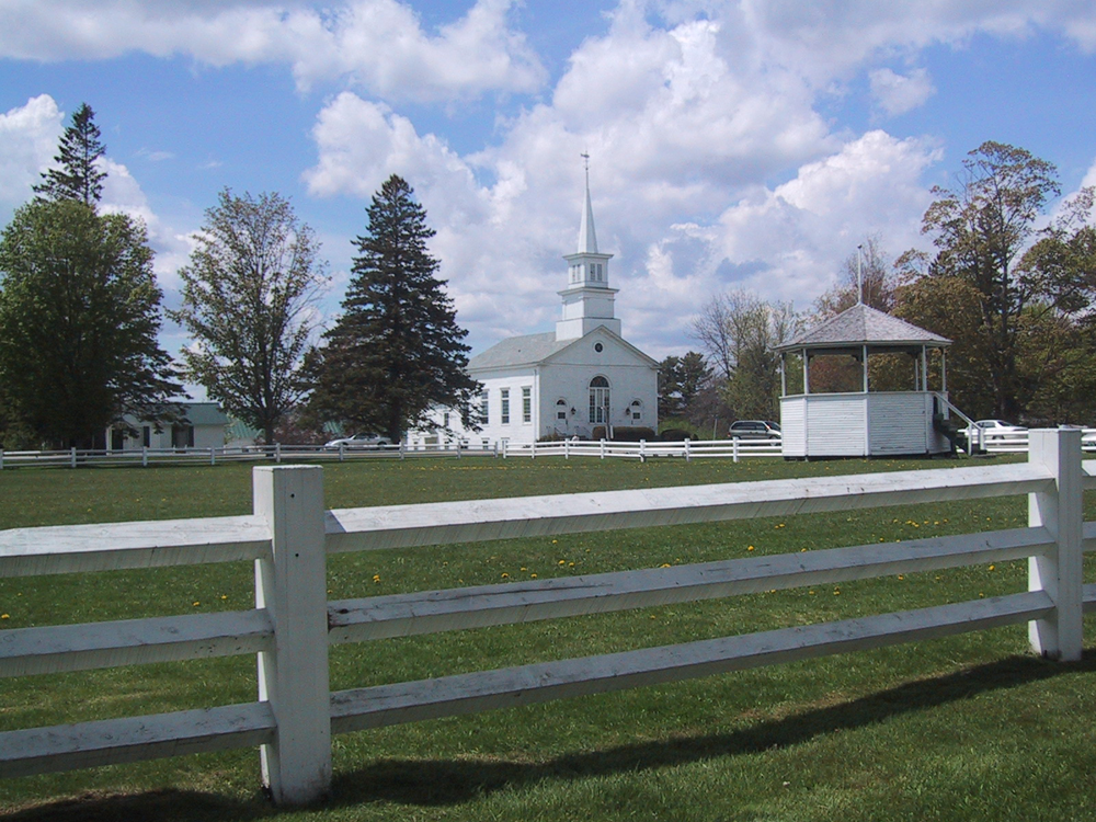 Looking across the commons in Craftsbury Common Vermont, with the United Church of Christ in the background.